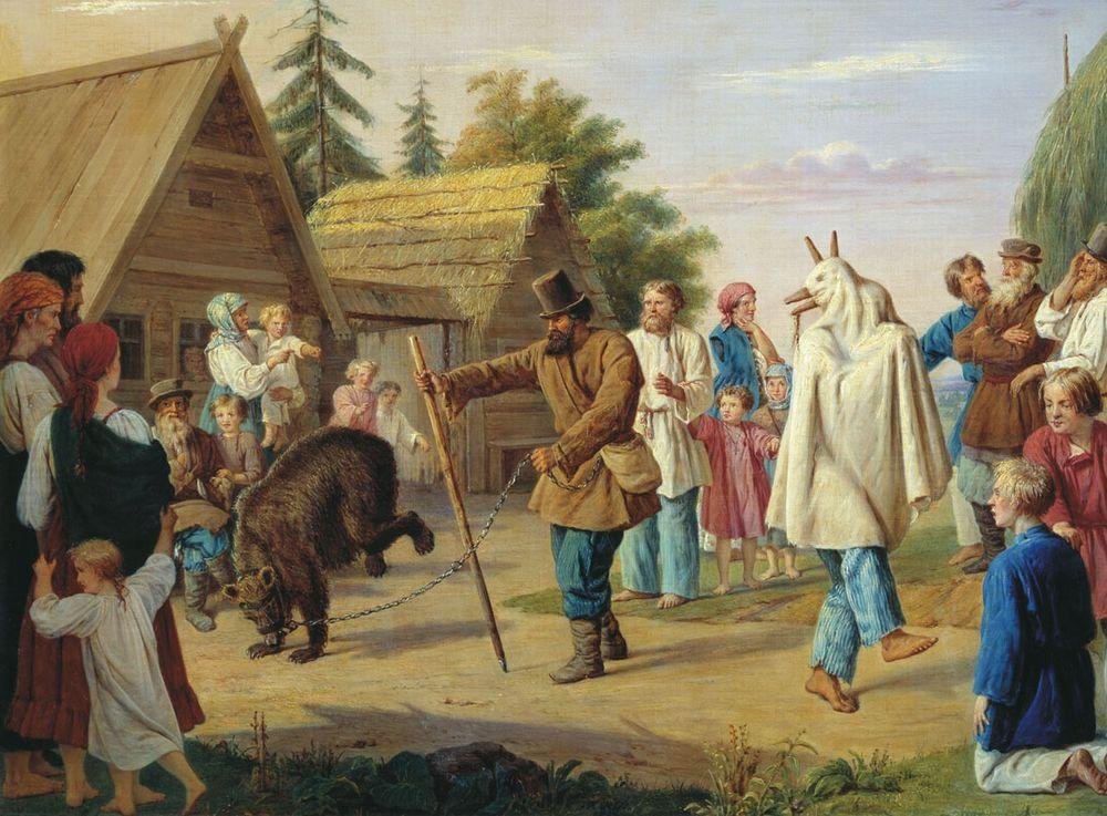 Skomorokhs in a Russian village